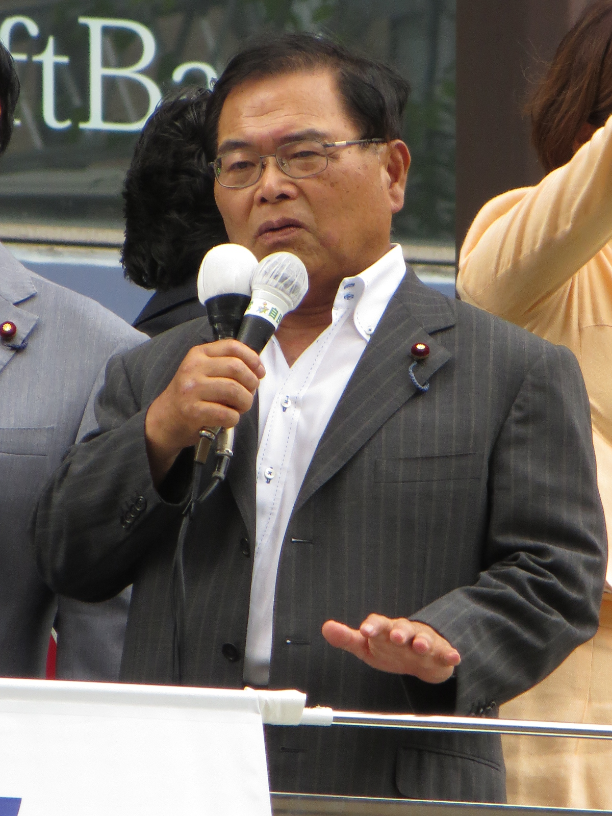 Naokazu Takemoto (Member of the House of Representatives of Japan).